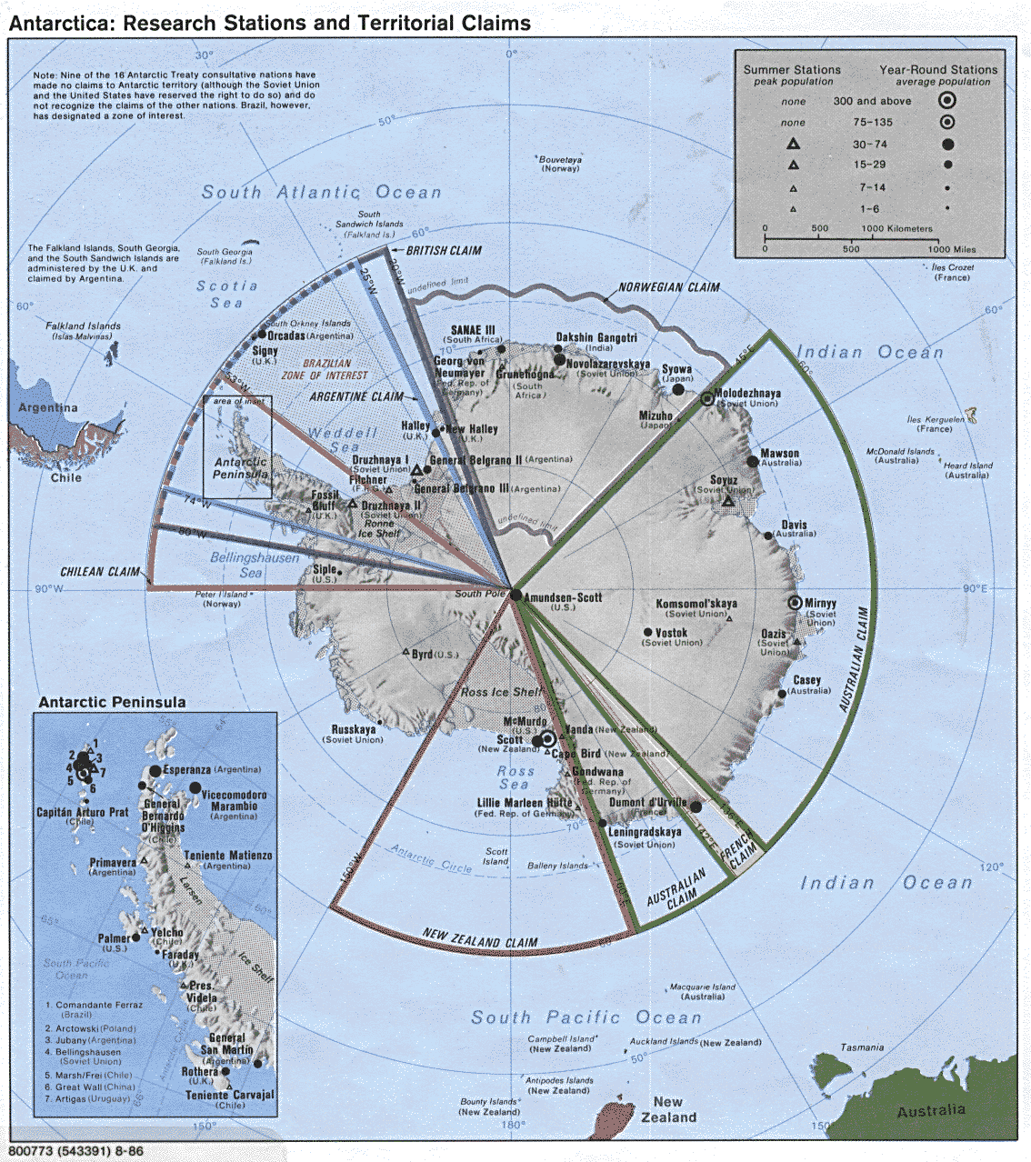 Antarctica - Research Stations and Territorial Claims